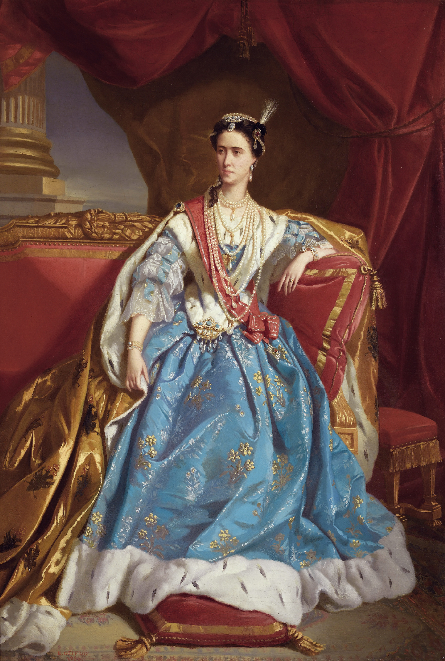 French actrice Rachel (Elisabeth Rachel Félix)